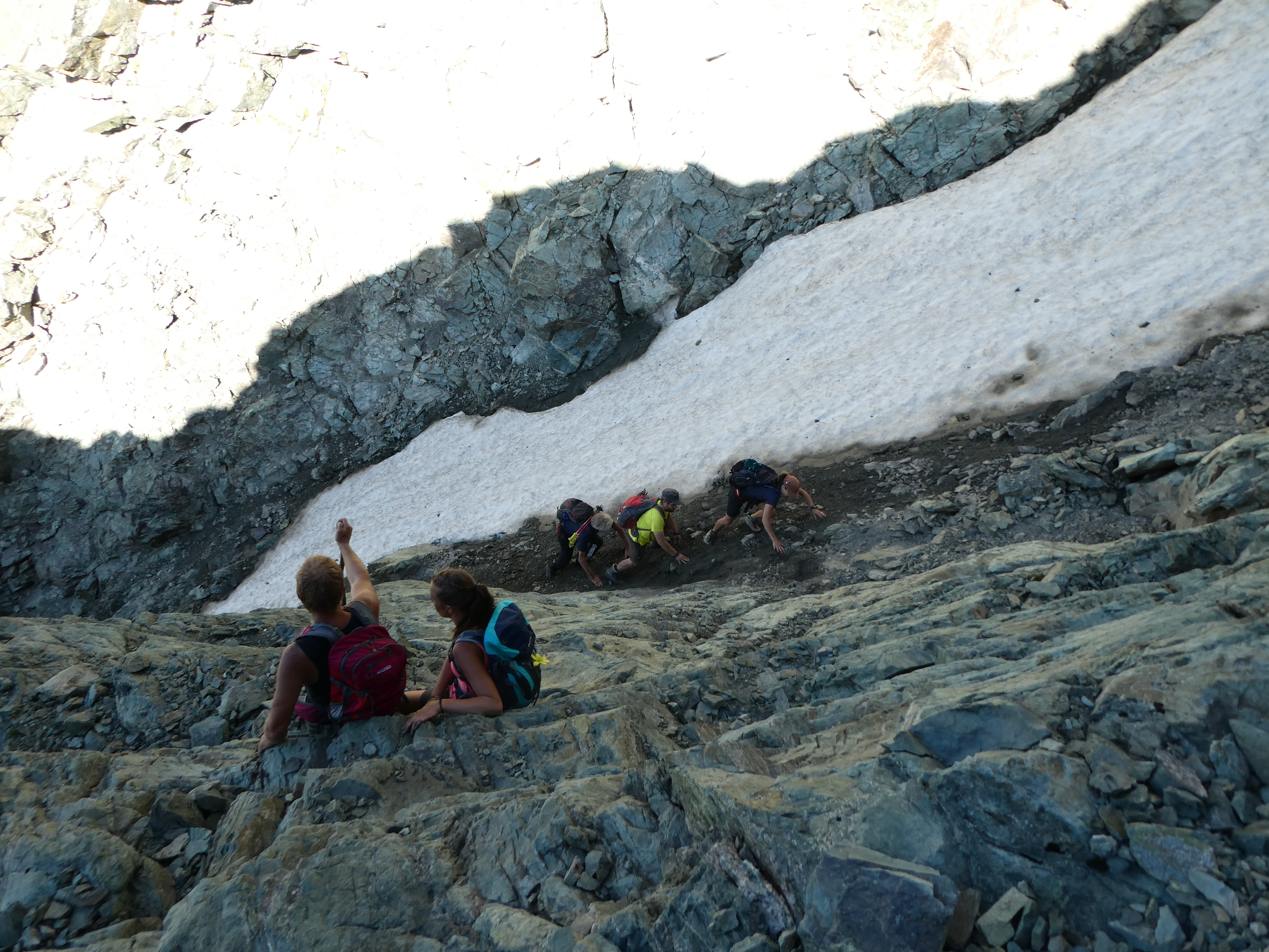 Climbers in the south-couloir of the summit structure of Piz Platta (Surses, Grison, Switzerland)